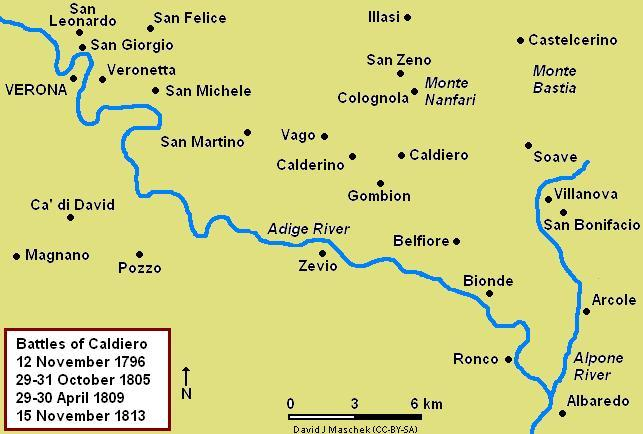 Battles of Caldiero, 1796, 1805, 1809 and 1813.